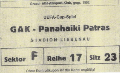 Ticket Panacxaiki Grats